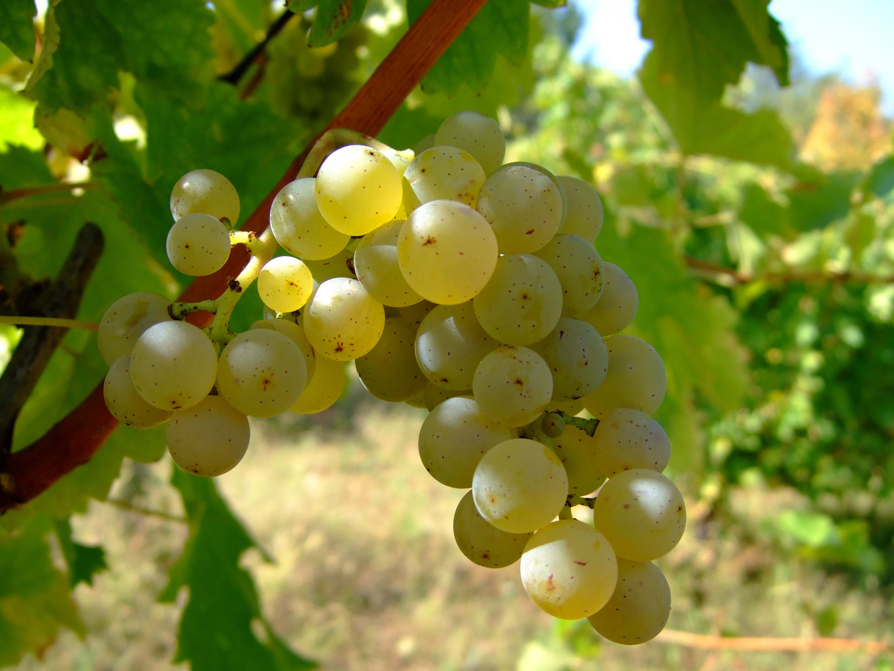 Sauvignon blanc wine grape. Location: Vlasotince vineyards, southeast Serbia.